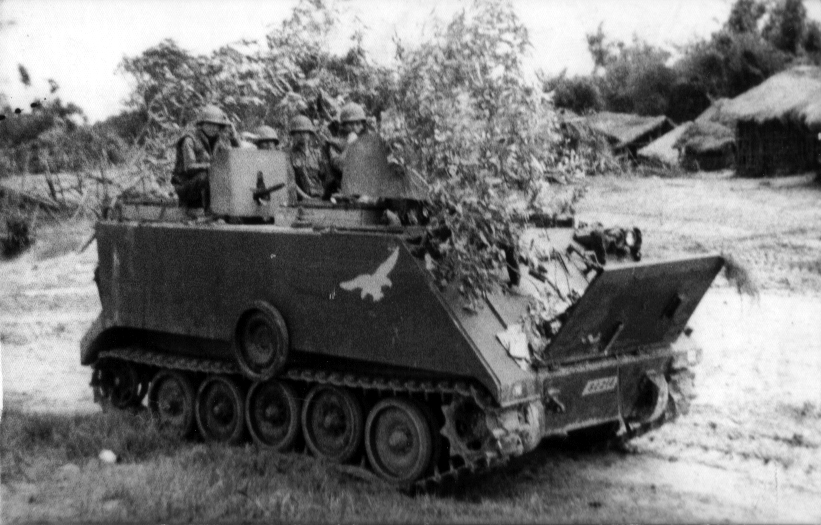 ACAV OF SOUTH VIETNAMESE 17TH ARMORED CAVALRY takes up position near My Chanh for counterattack, July 1972.